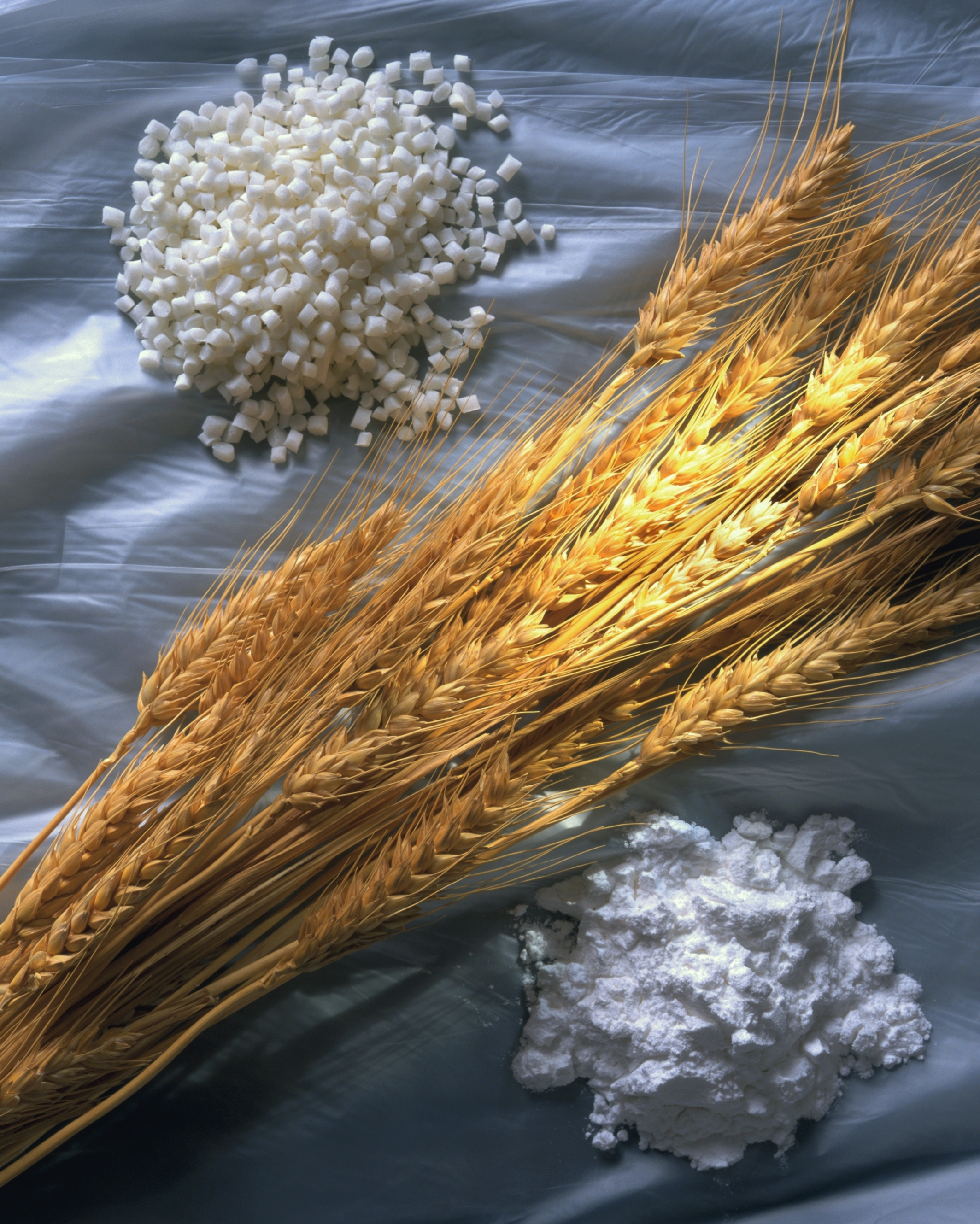 Starch is extracted from wheat and converted into plastic pellets that can be used as the base polymer material to make biodegradable packaging and other thermoformable objects. CSIRO has developed a variety of biodegradable polymer materials from renewable resources such as starch, cellulose and protein. Nanoparticles and other additives can be applied to enhance the properties of these materials for specialised use in transport, packaging and medical applications. The technologies of starch-based biodegradable materials developed by CSIRO have received worldwide recognition and won various awards. Some of the technologies developed have been commercialised through the establishment of a spin-off company, Plantic.